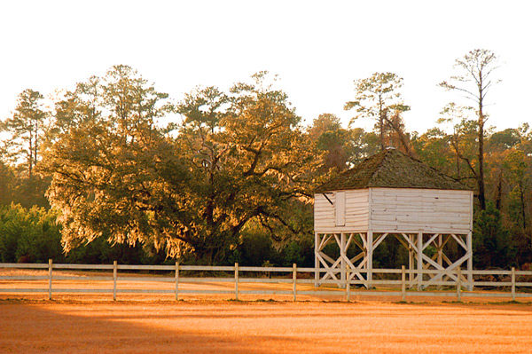 Photograph by Thomas Namey, Namey Design Studios.